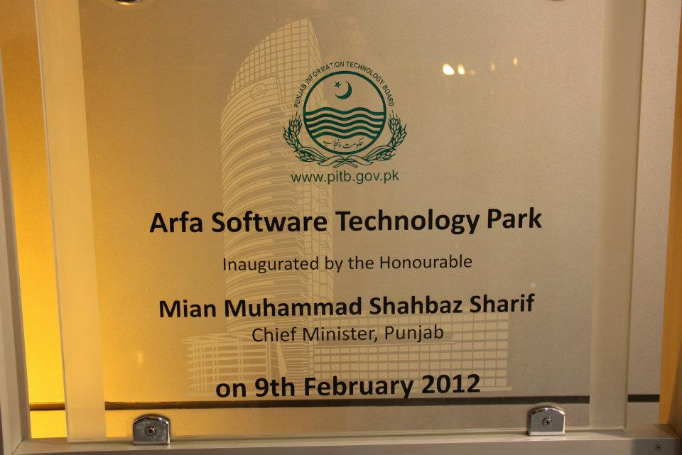 Inauguration